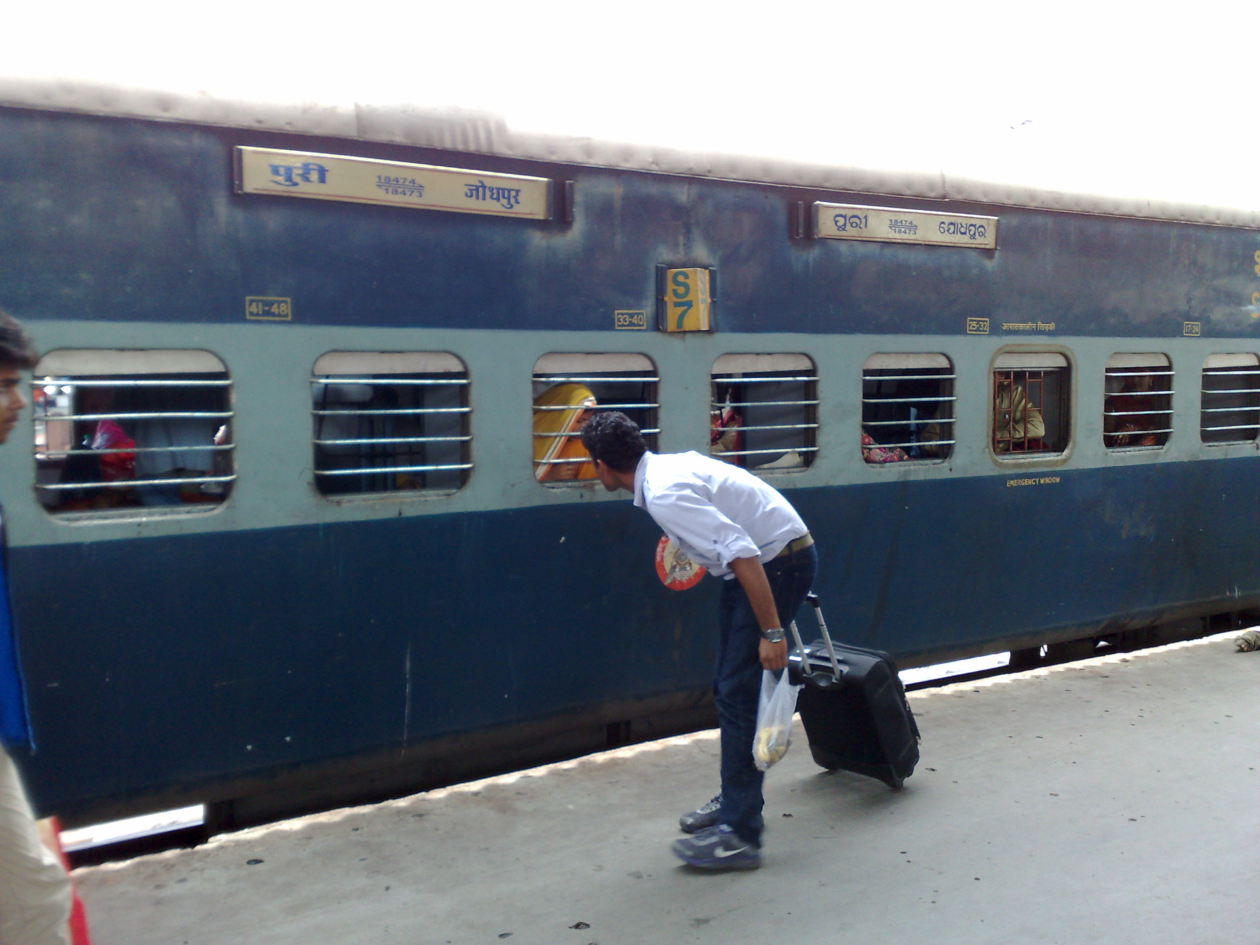 Puri Jodhpur Express - Sleeper Class